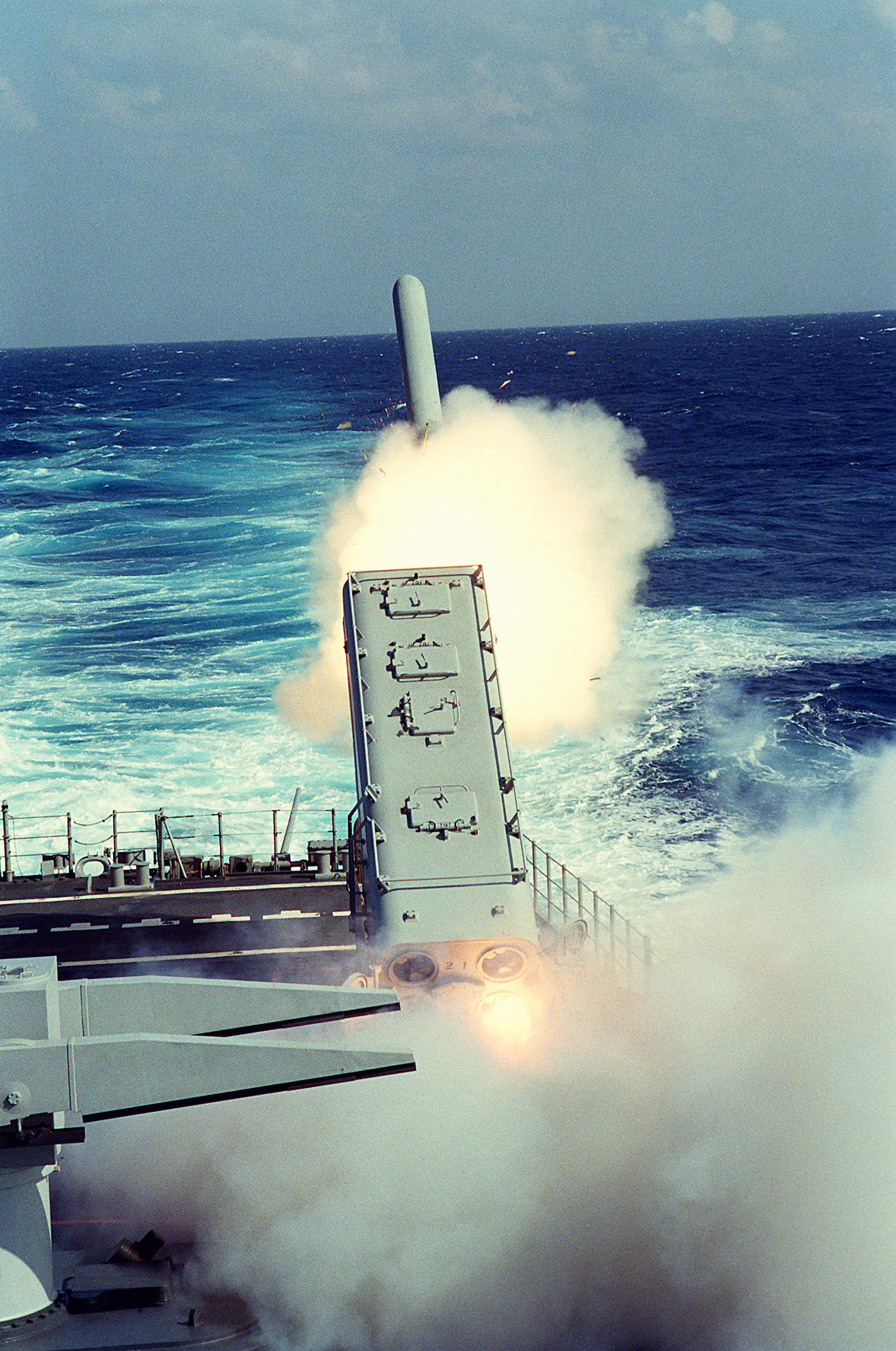 A BGM-109 Tomahawk Land-Attack Missile (TLAM) is launched toward a target in Iraq from the port side Mark 143 Armored Box Launcher (ABL) on the stern of the nuclear-powered guided missile cruiser USS MISSISSIPPI (CGN40) during Operation Desert Storm.